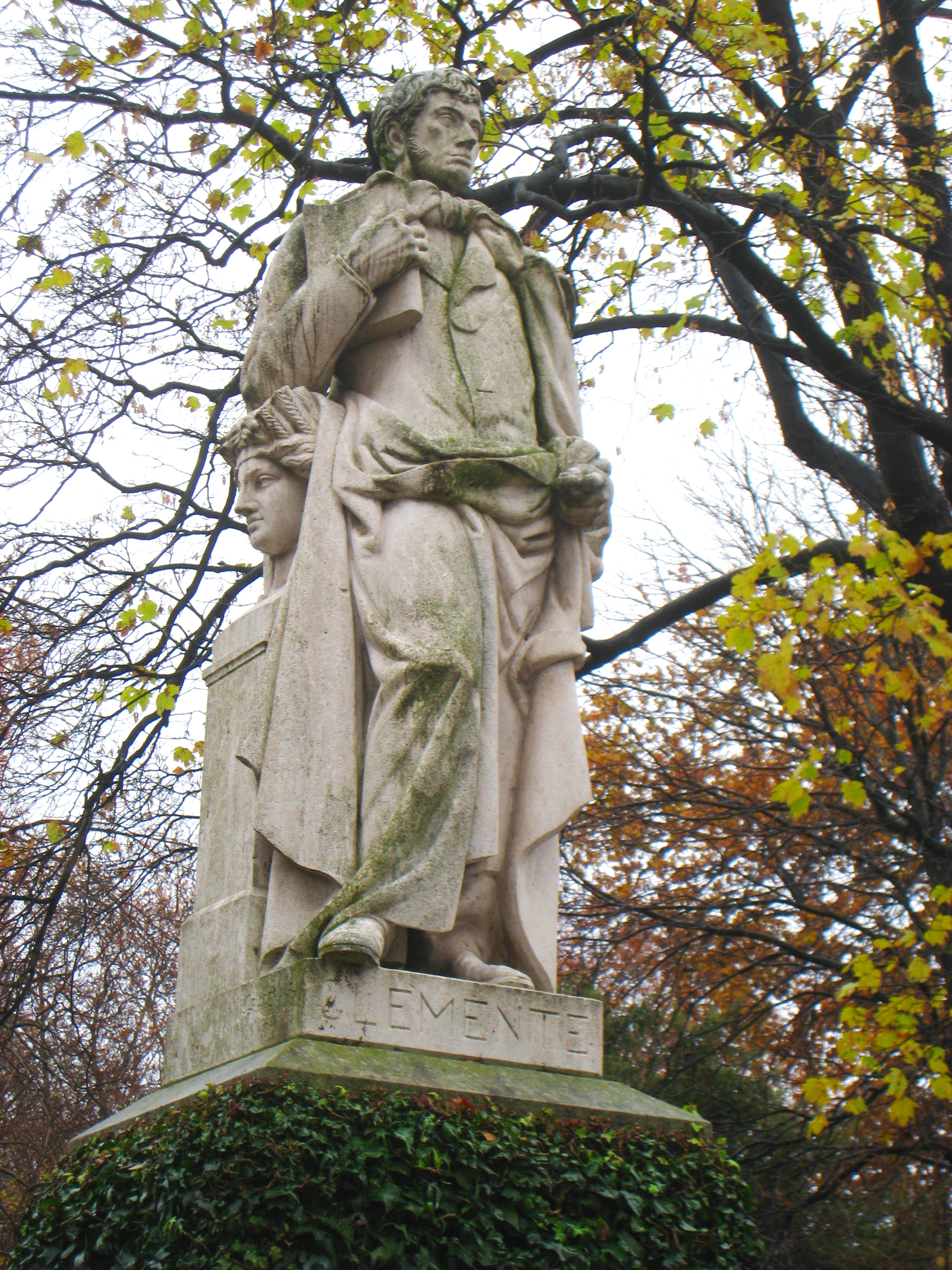 Statue of Simón de Rojas Clemente y Rubio (1777–1827) at the Royal Botanical Garden of Madrid (Spain). Sculpted by José Gragera y Herboso (1818–1897) and inaugurated in 1865.